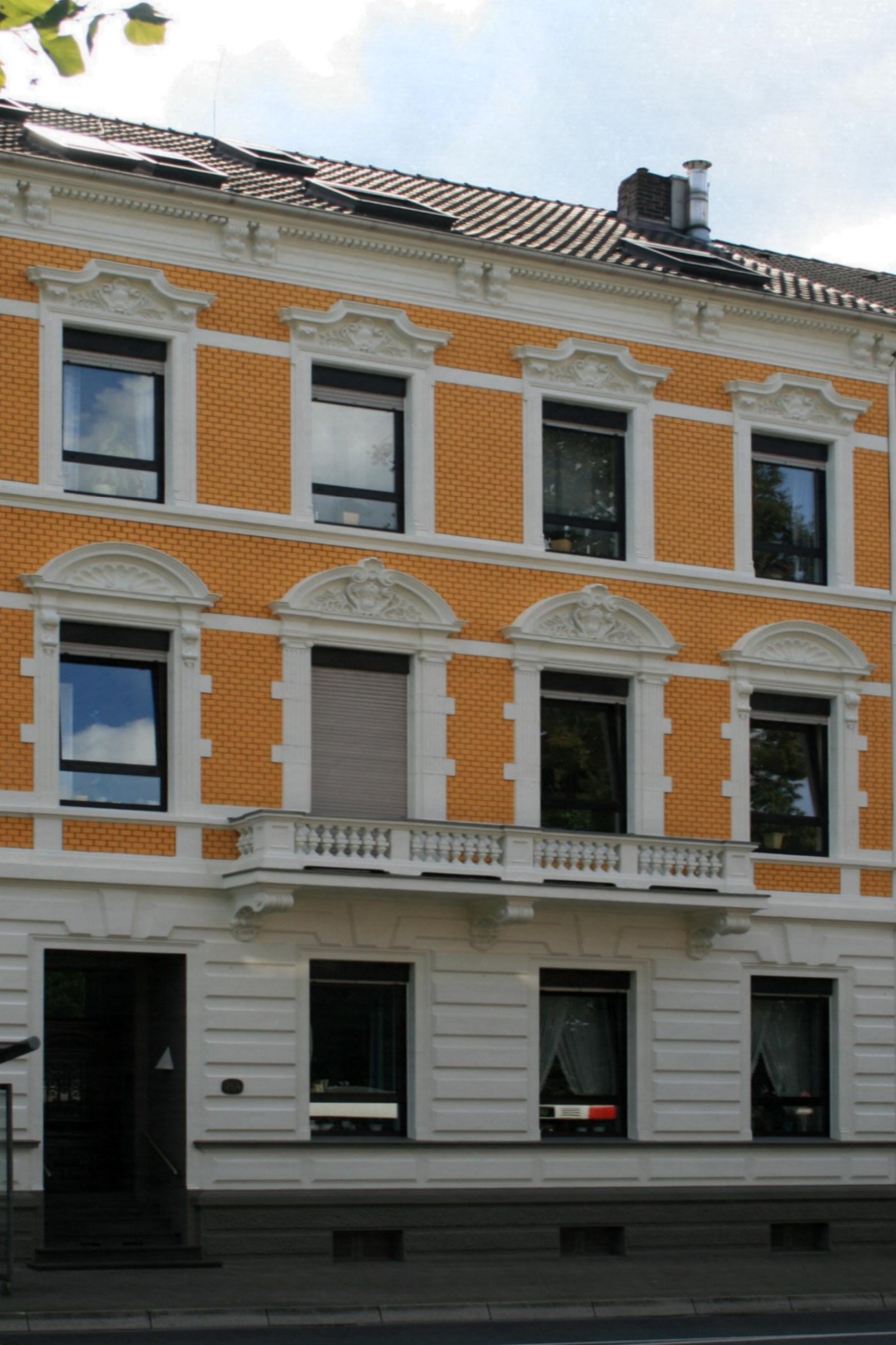 Cultural heritage monument No. H 019 in Mönchengladbach